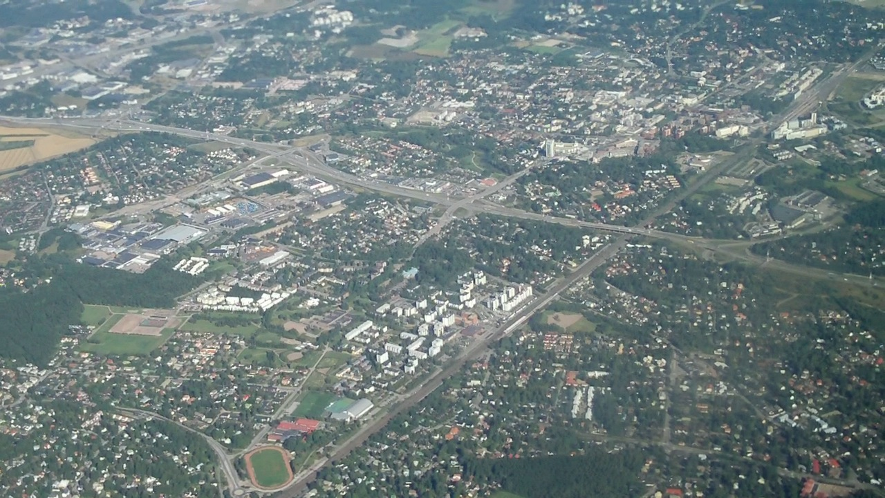 Tapulikaupunki and Puistola in Helsinki from air